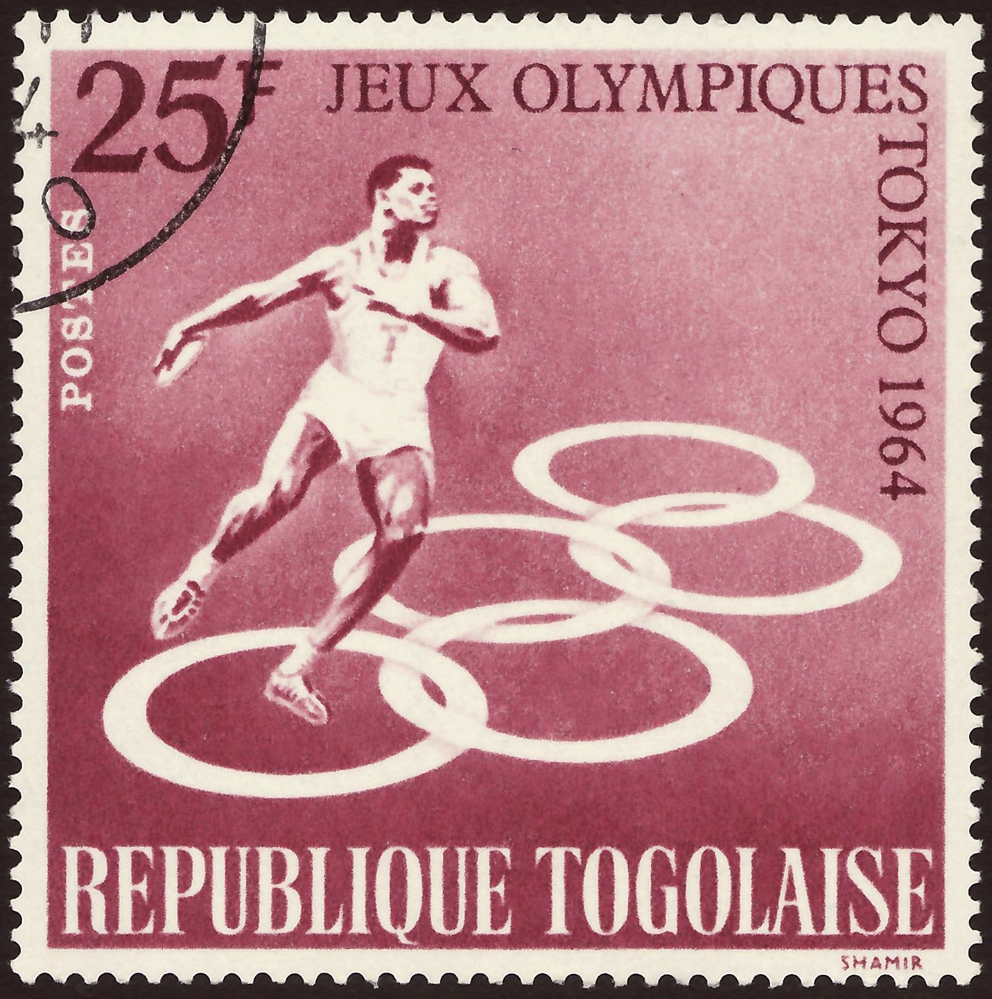 Stamp of Togo (République Togolaise); 1964; commemorative stamp of the issue "1964 Summer Olympics in Tokyo"; stamp drawing of a discus thrower over the Olympic rings; stamp postmarked by CTO ("cancelled to order") Note: The Togolese Republic did not take part in the 1964 Olympic Summer Games. Stamp: Michel: No. 437; Yvert et Tellier: No. 427; Scott: No. 493 Color: brownish violet Watermark: none Nominal value: 25 F (CFA-Francs) Postage validity: from 3 October 1964 until ? Stamp picture size (printed area without signature line): 40.5 x 40.0 mm